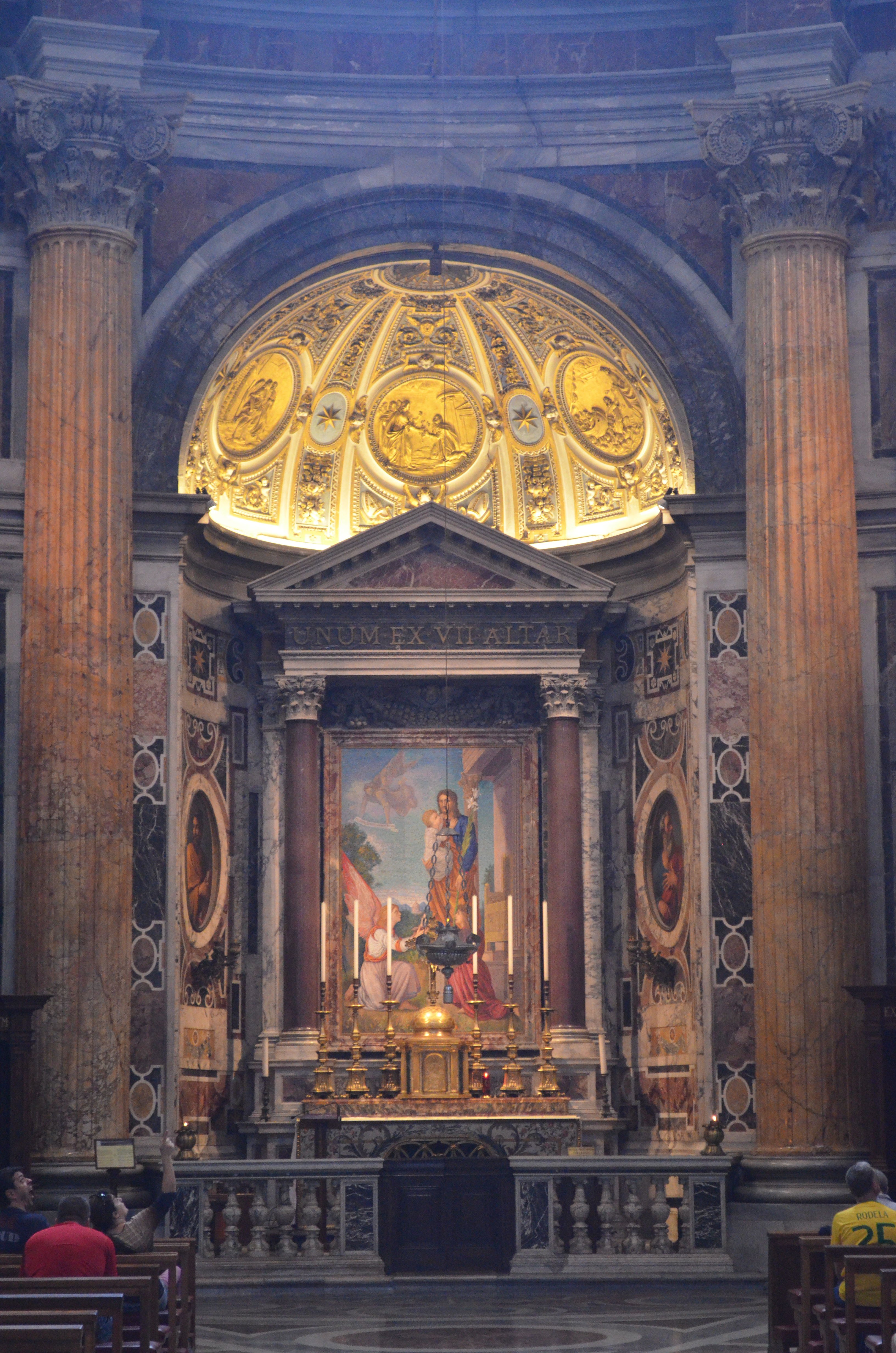 Saint Peter's Basilica